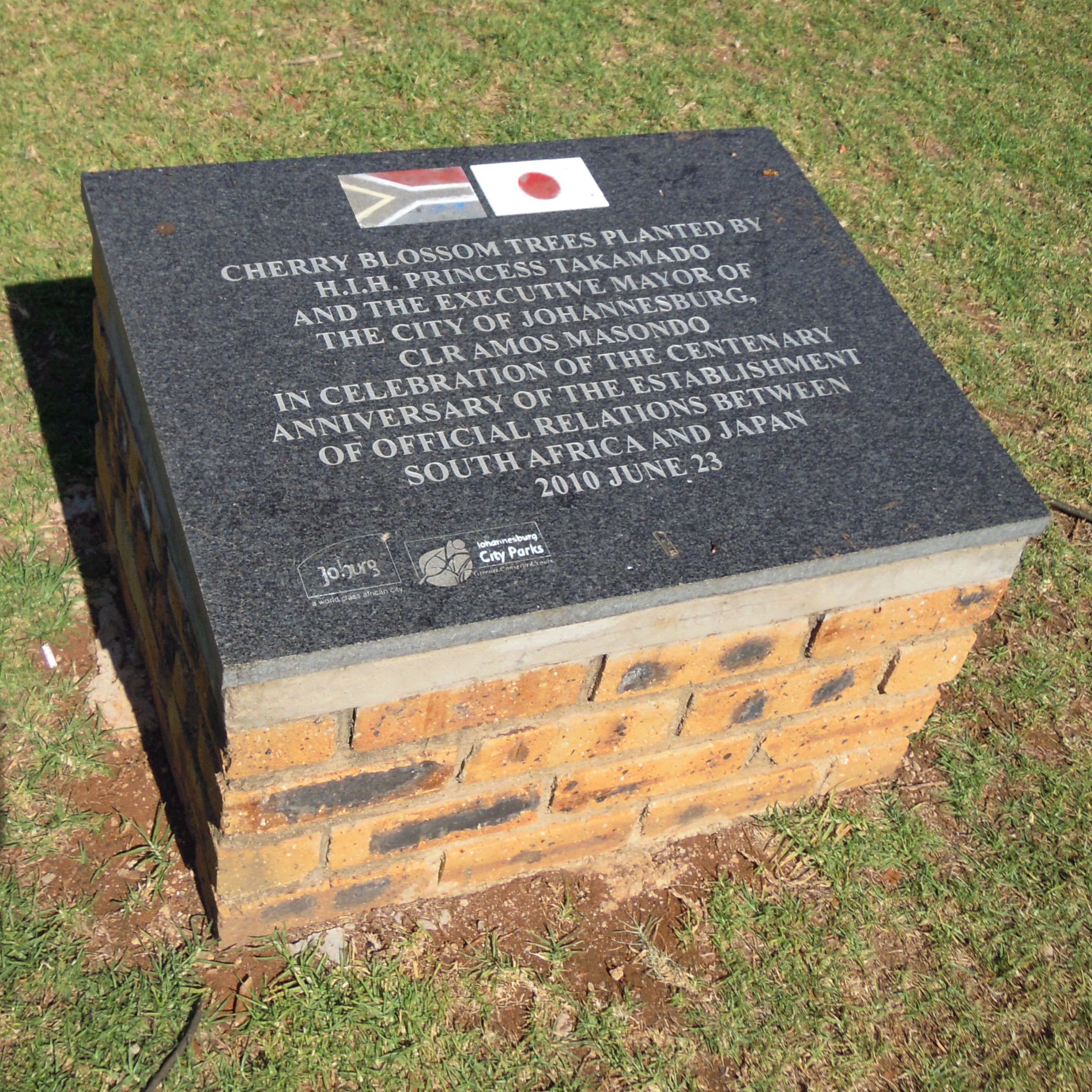 The photo is used to illustrate the planting of memorial trees and their subsequent disappearance